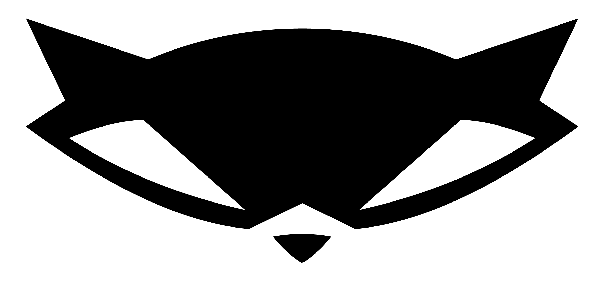 a mask pattern such as that of Sly Cooper